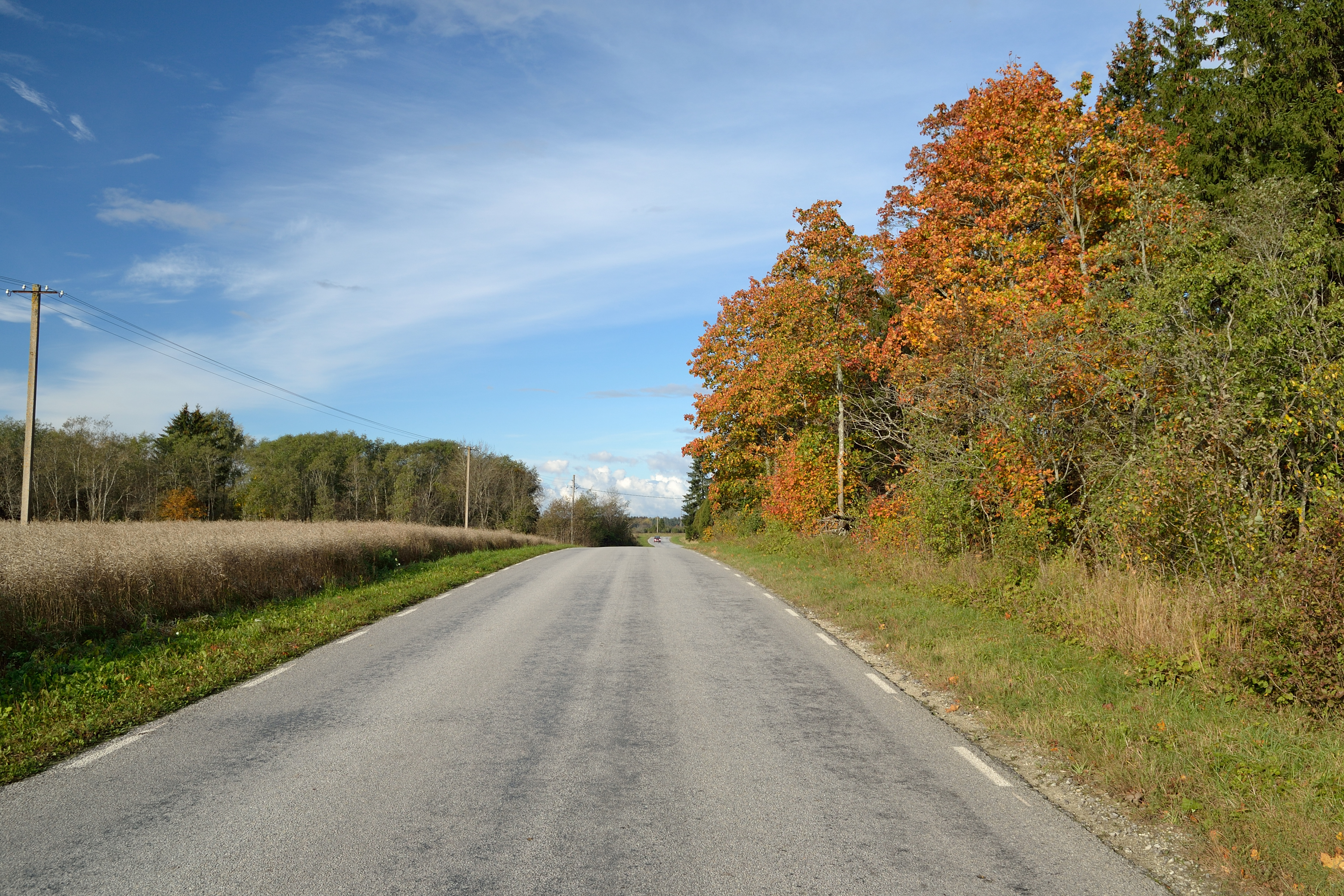 Munalaskme–Laitse road in Kaasiku village